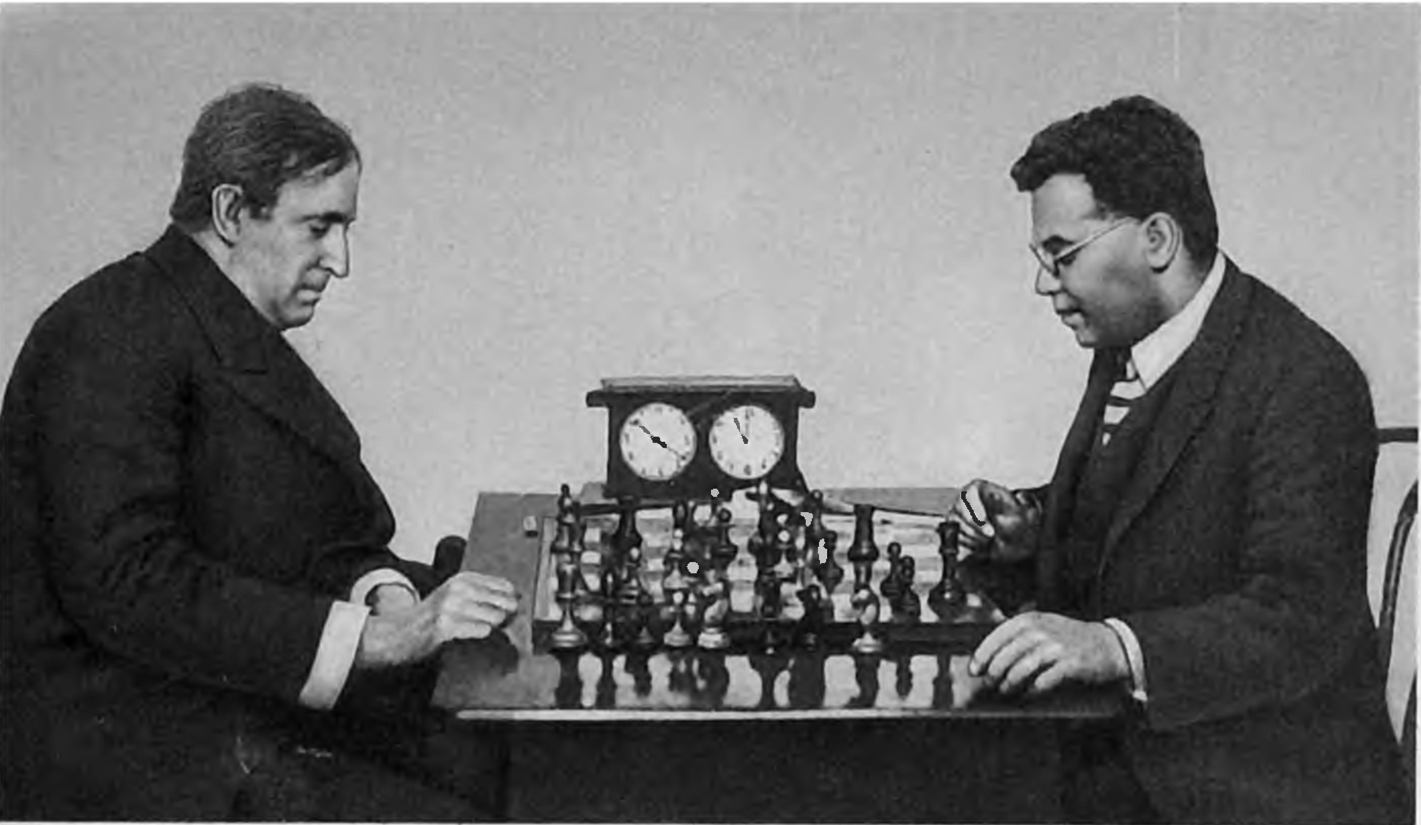 F. J. Marshall - R. Reti, Moscow 1925 chess tournament, 2nd round (11th november)